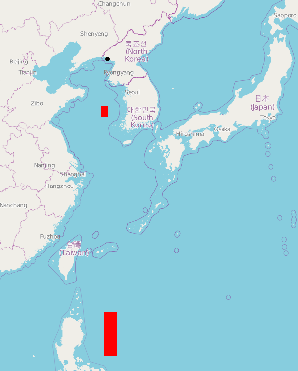 "No sail, no fly zone" designated by the North Korean government at 2012 North Korean rocket launch.